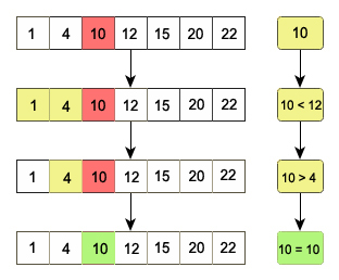 Binary search example